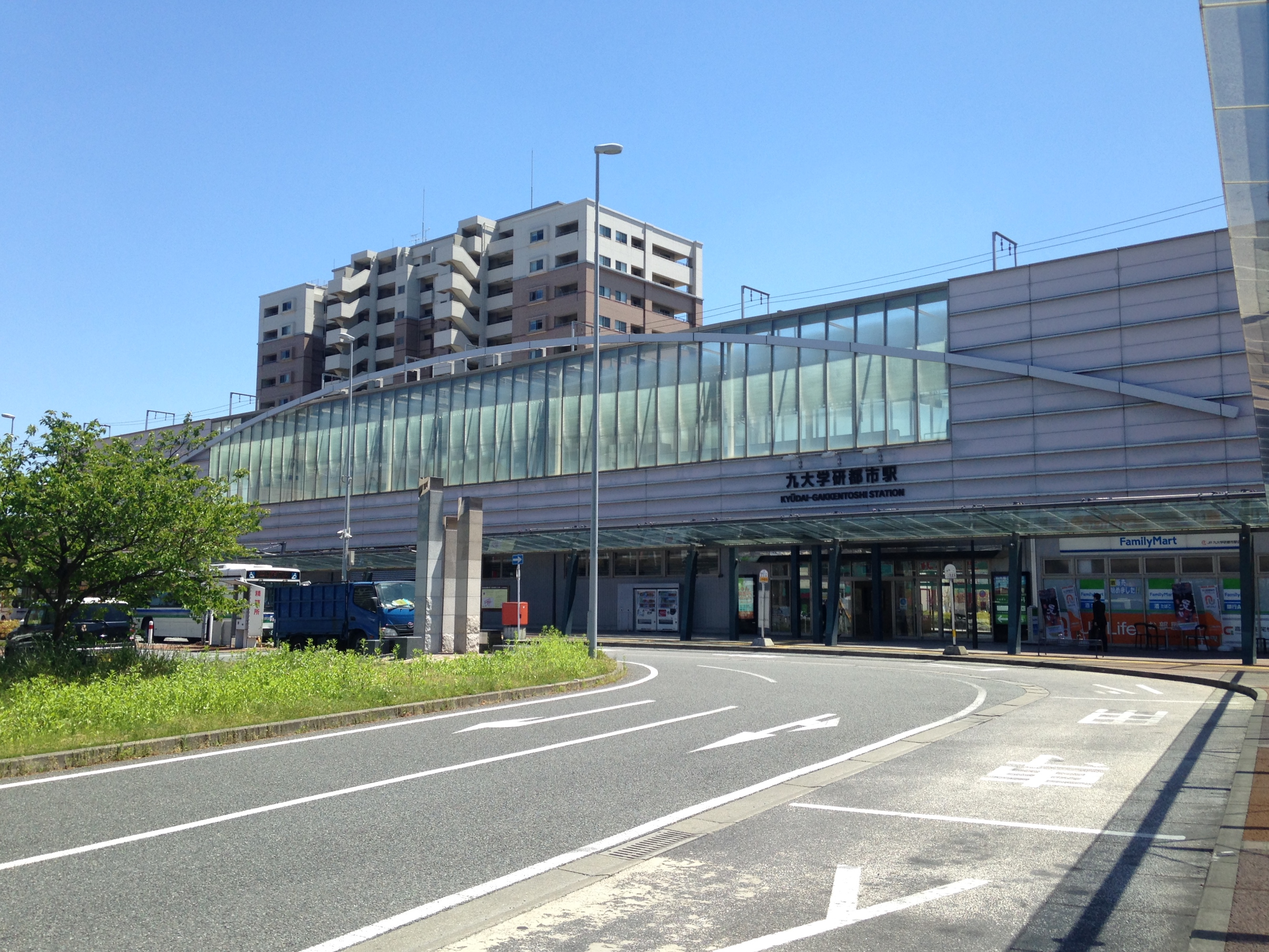 Kyūdai-Gakkentoshi Station